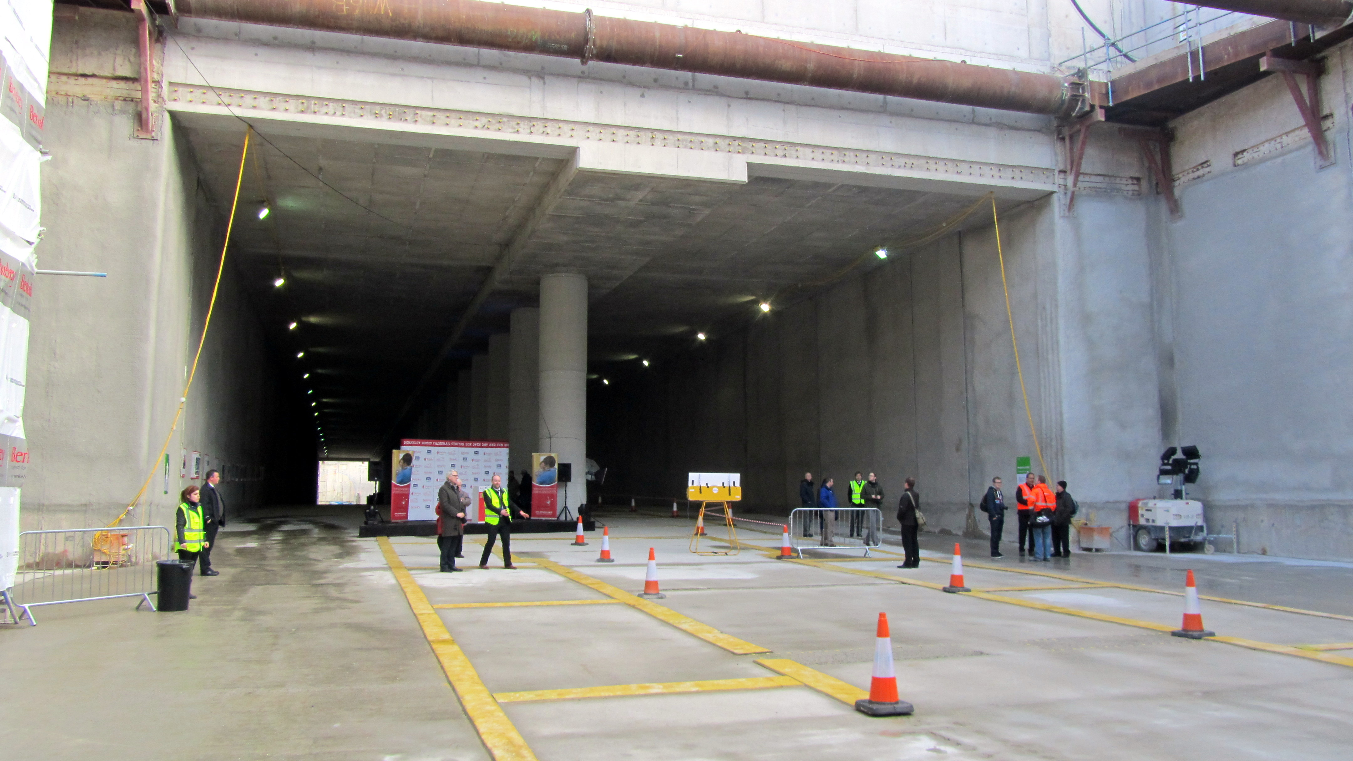 Taken from near where the eastbound line will enter the box, facing east.